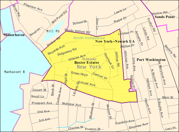 U.S. Census 2000 reference map for Baxter Estates, New York